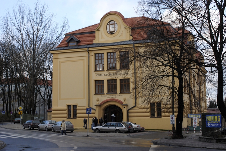 Collegium Iuridicum Katolickiego Uniwersytetu Lubelskiego